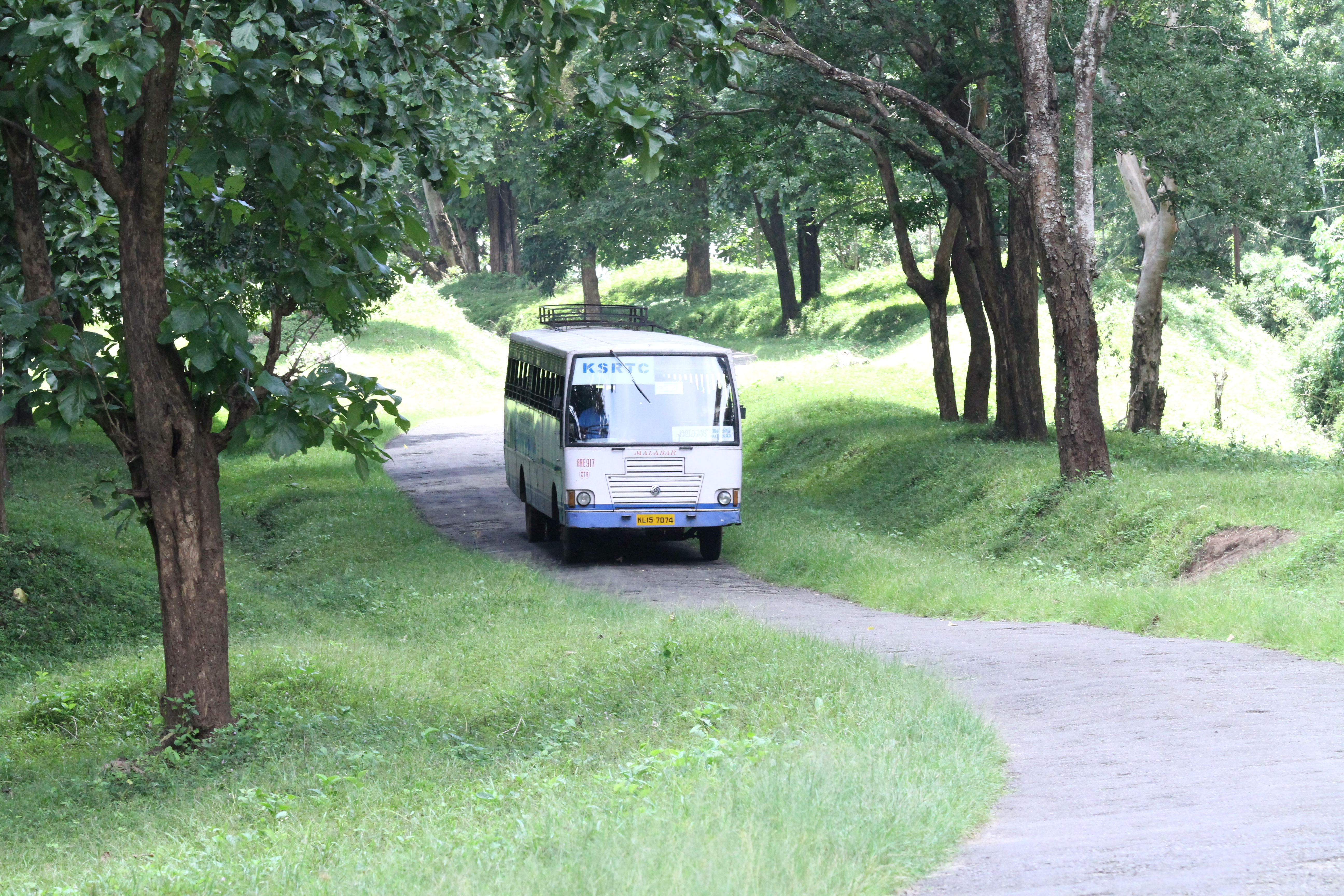 A bus of Kerala State Road Transport Corporation (KSRTC) plying through Parambikulam Tiger Reserve, Palakkad, Kerala, India. Photo Credits: Manukrishna CK, Praveen R, Parambikulam Tiger Conservation Foundation.